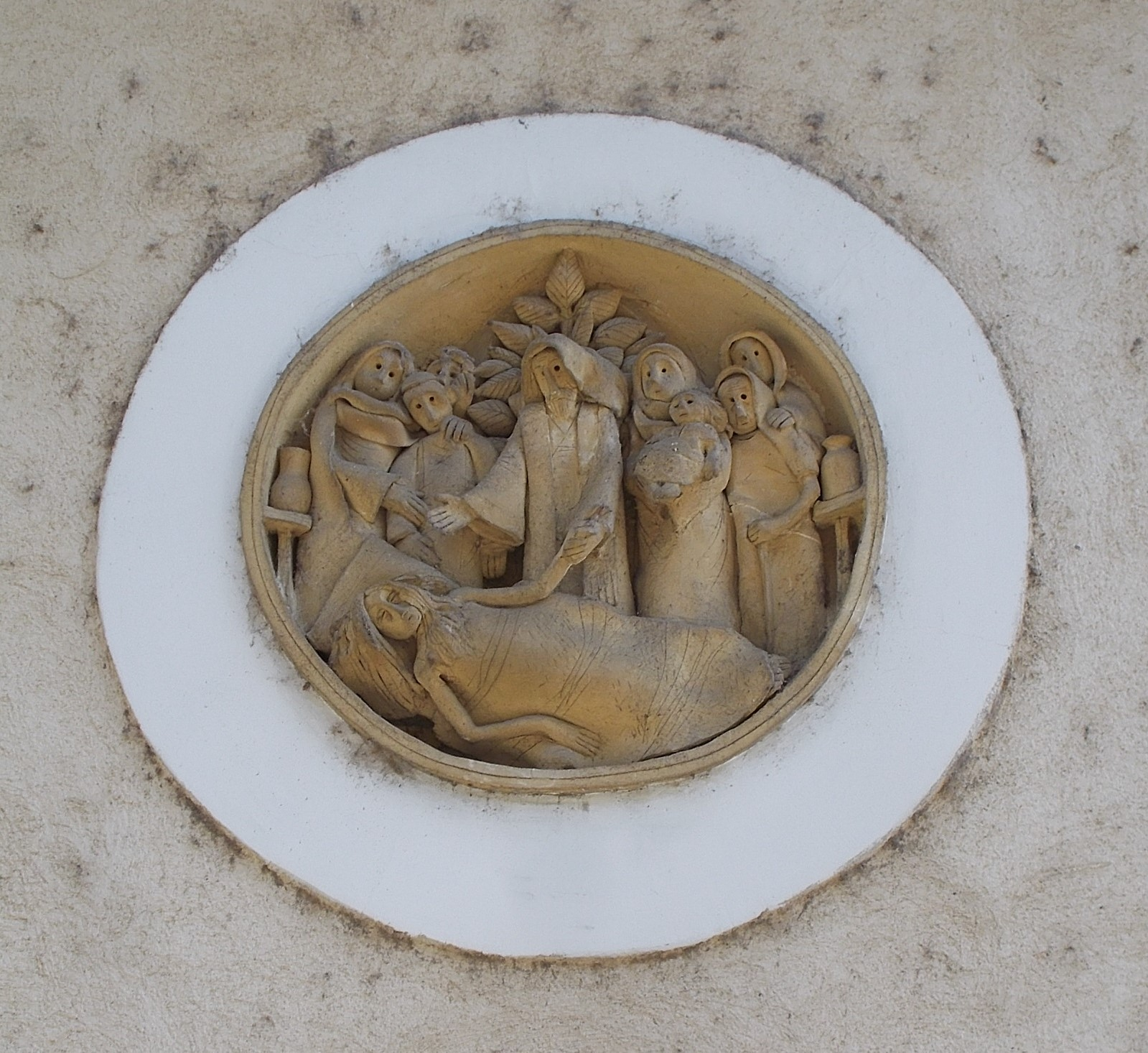 Plaque to Nándor Lodner by Etelka Csavlek (2003 ceramic relief) on a listed house facade. - 3 Csobánc utca, Downtown, Tapolca, Veszprém County, Hungary.